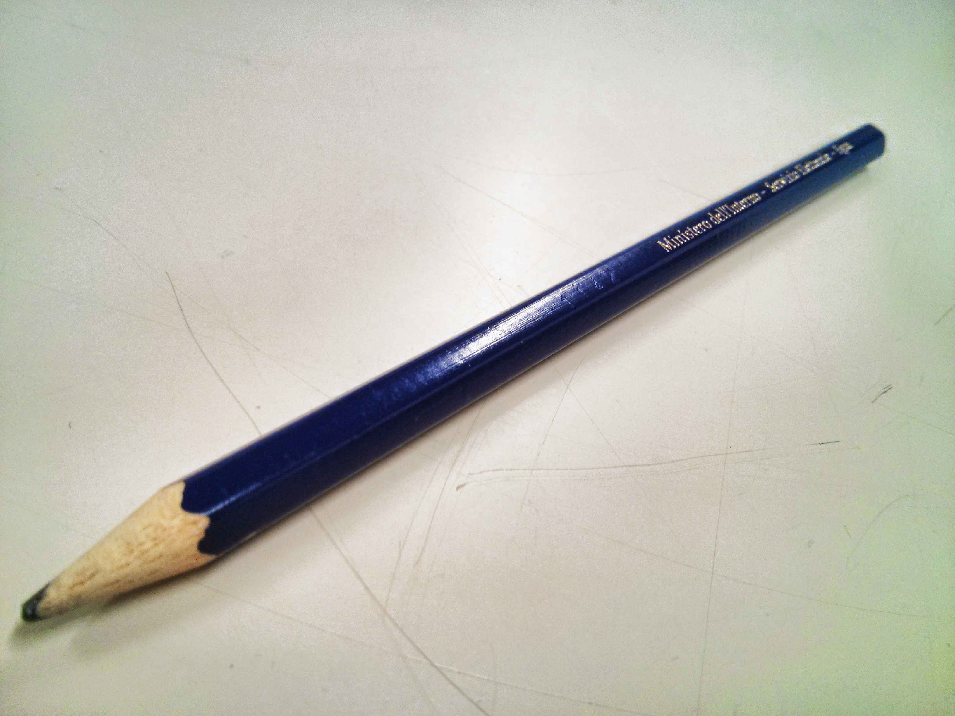 A copying pencil used during italian ballots. The incision says "Ministry of Interior - Elections Service"; on the left an ID number is visible.